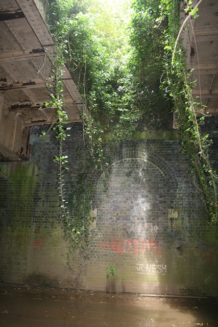 Lutterworth Station (entrance) Sunshine beaming through central section, under remains of the station's central platform. Bricked up entrance archway is clearly visible. Site of station north of this position is now homes and gardens (Marylebone Drive). Photo taken from driveway under remains of railway, which leads (east) to FPs leading to M1 and Misterton) or (west) to Station Road and Lutterworth itself.